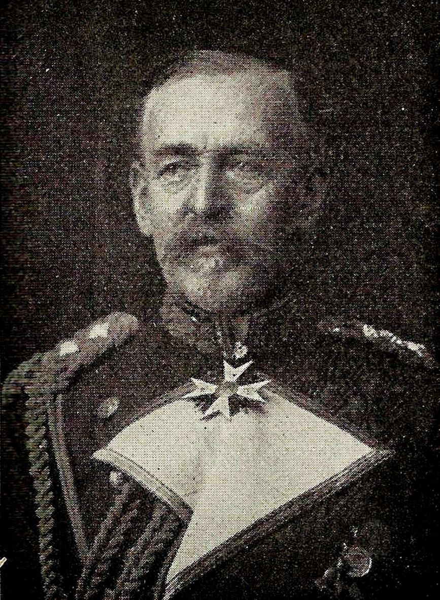 Admiral Friedrich Graf von Baudissin